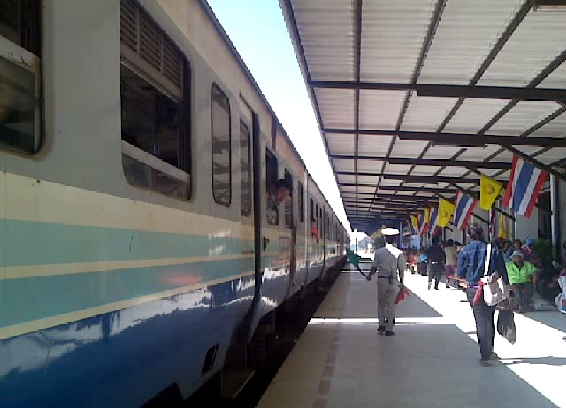 Train @ Lam Plai Mas Station